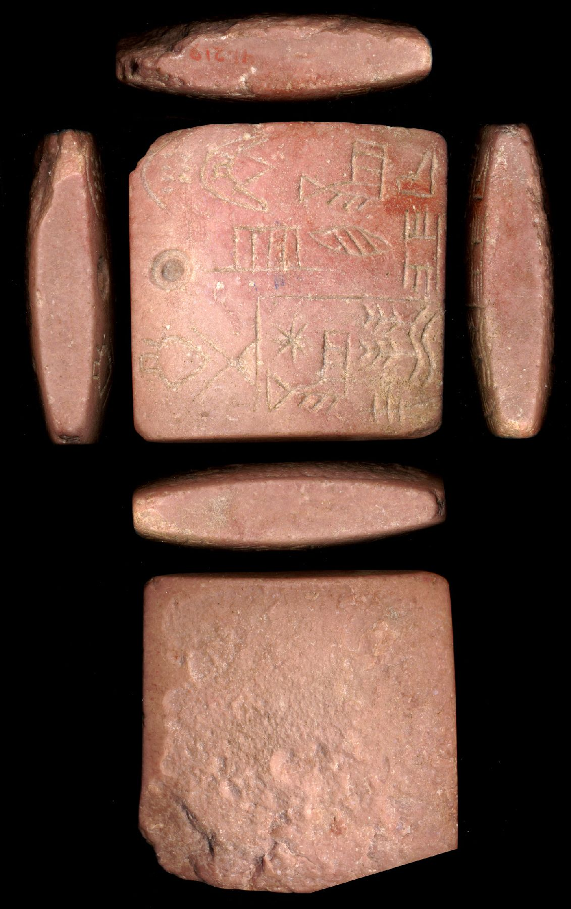 From a unique group of early documents recording the transfer of land (in this case one "b'uru"- about 150 acres), this tablet illustrates the transition from a writing system based on pictures to one where signs represent sounds. The vase and foot are easily recognized but represent sounds rather than objects. In the bottom row, the two wavy lines sprouting plants is the sign for garden.